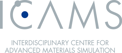 Icams1